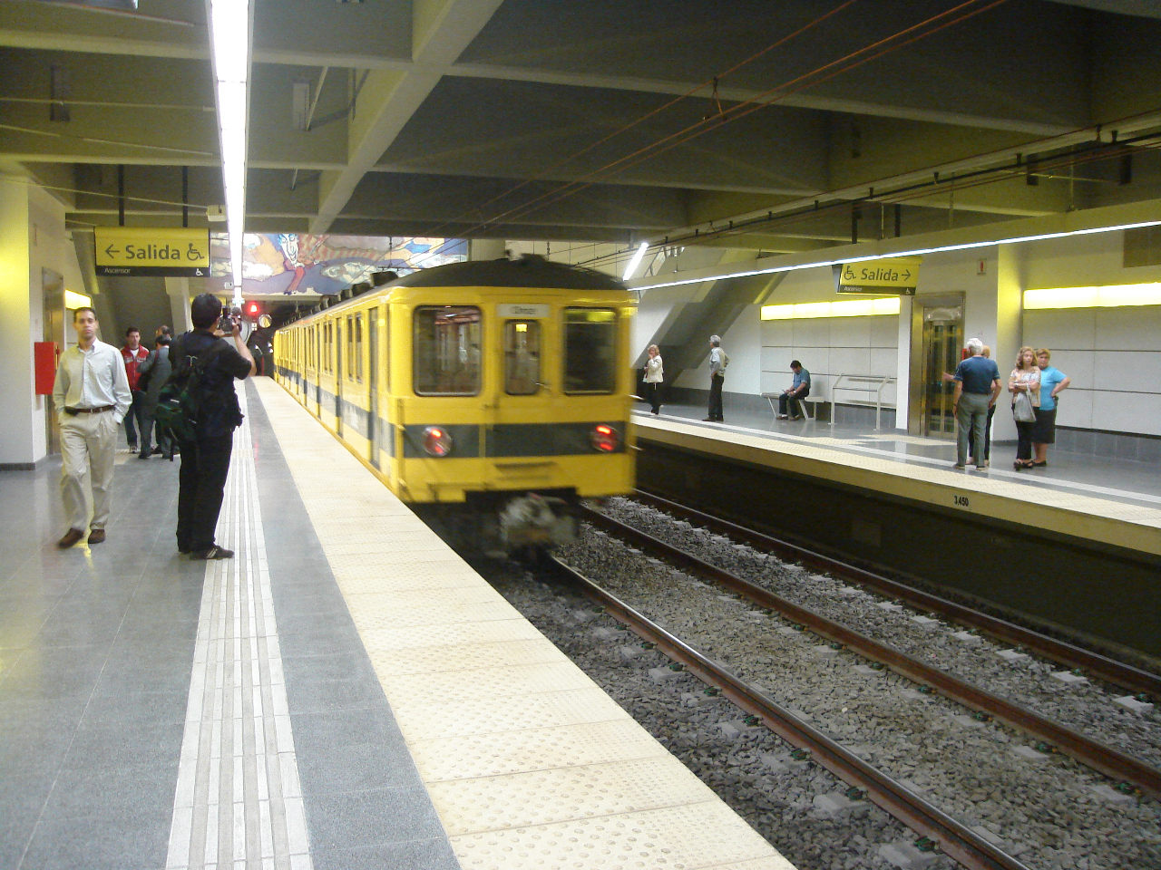 View of the H line Caseros station of the Buenos Aires Underground network in the City of Buenos Aires in its opening day with classical Siemens-Schuckert formations.